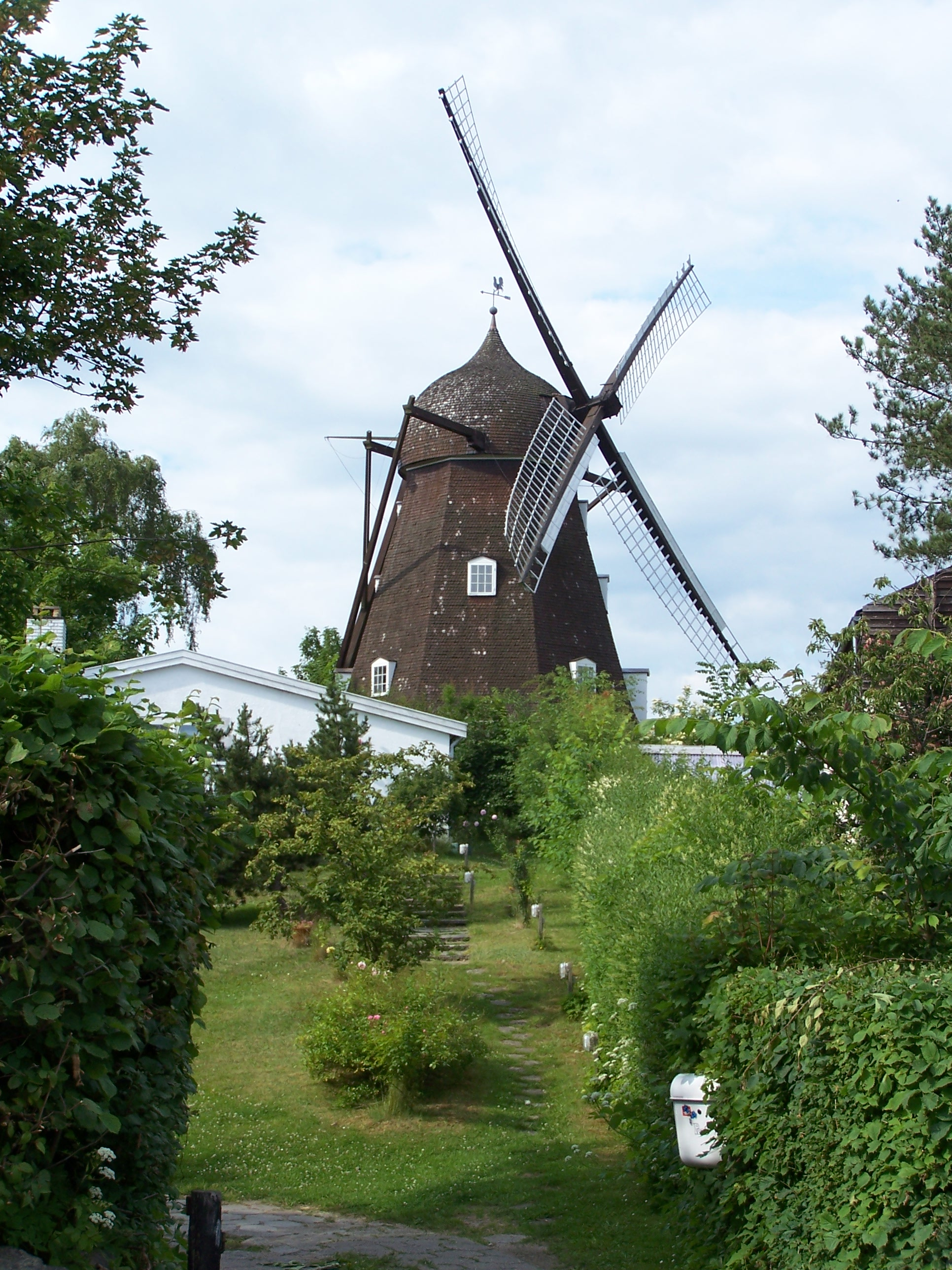 Tibberup Mill